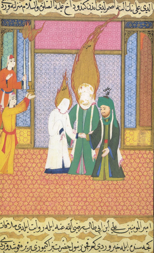 Siyer-I Nebi or Life of the Prophet